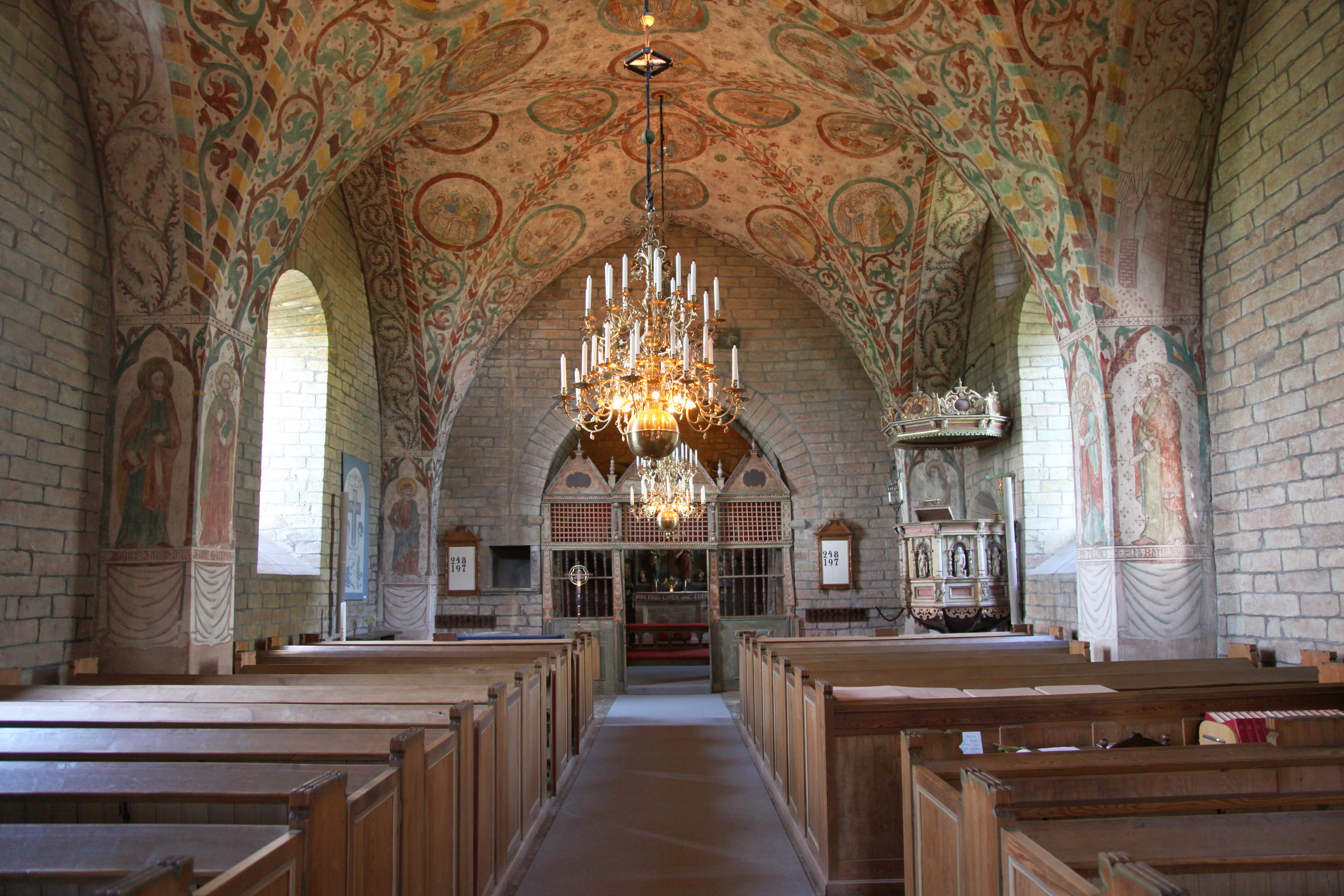 Interior in Husaby kyrka. A church near Lidköping - Google Maps - Google Earth